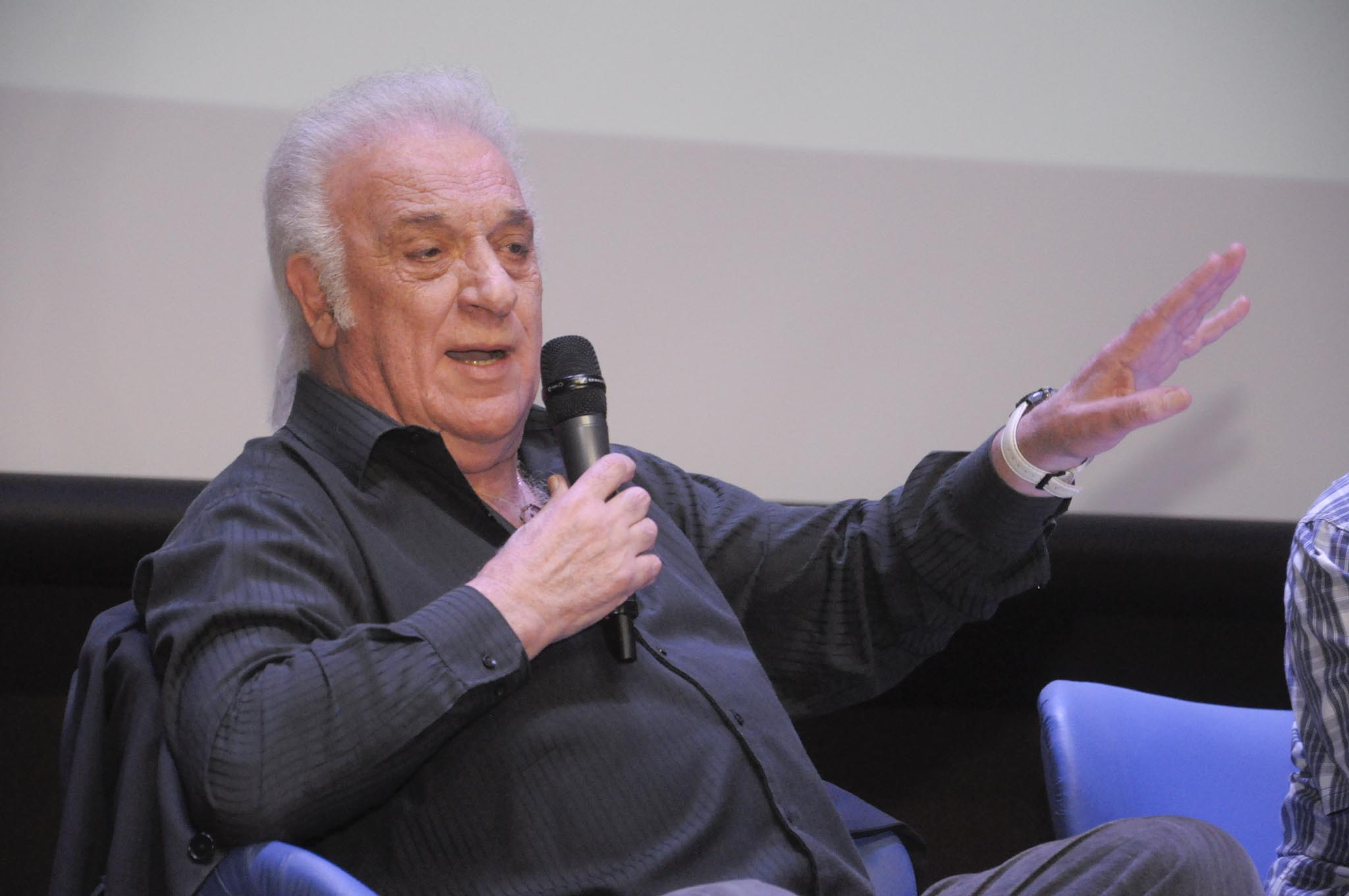 Argentine former player and manager Alfio Basile, during a master class at the UMET.